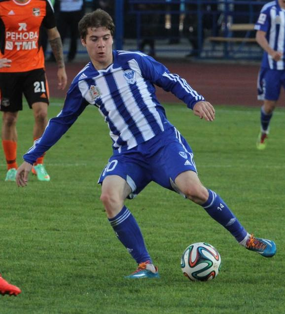 Yevgeni Kozlov playing for FC Volga Nizhny Novgorod.